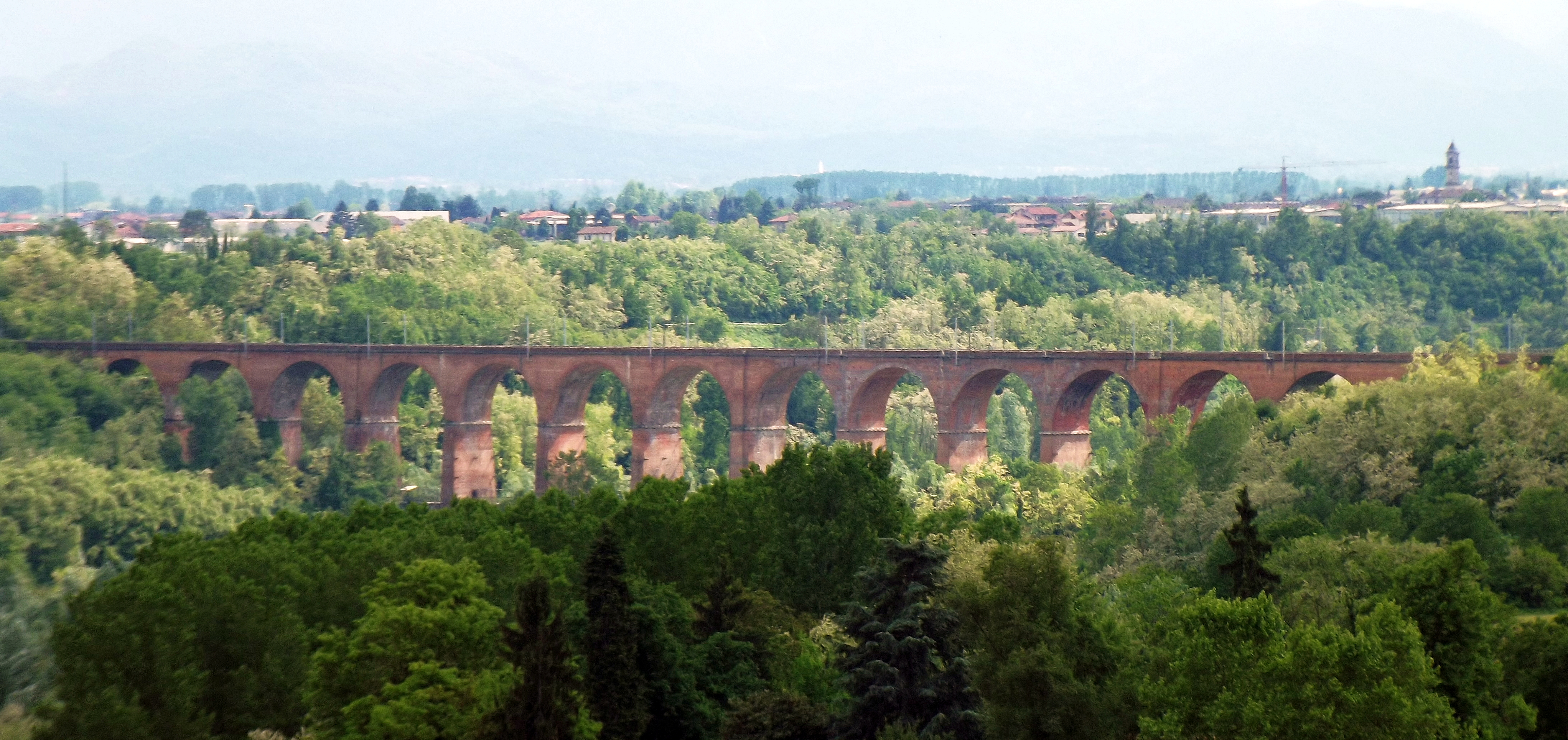 Torino-Fossano-Savona railway bridge on Stura di Demonte seen from Fossano (CN, Italy)